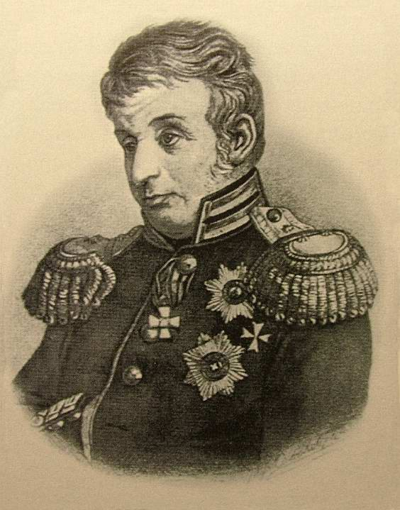 François Sainte de Wollant - general of Russia